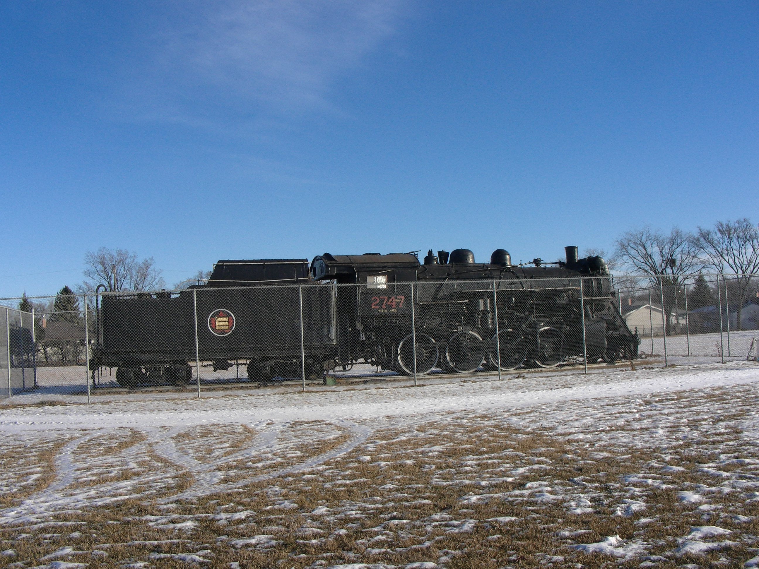 CNR 2747 was the first of 33 steam locomotives built by the Canadian National Railway in its shops at Transcona, Manitoba, and it was the first locomotive built in Western Canada. This Consolidation type locomotive was completed April 1926 and since 1960 has been on static display in a park on Plessis Avenue, Winnipeg, Manitoba. Further description at Manitoba Historical Society Web page, retrieved 2012 Jan 06